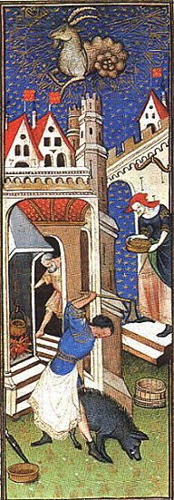 An illustration showing the season of Capricorn and the butchering of a pig.